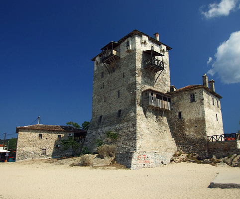 the town of Ouranopolis, Chalkidiki